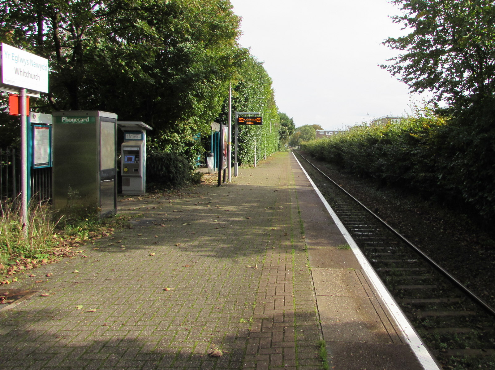 East along Whitchurch (Cardiff) railway station